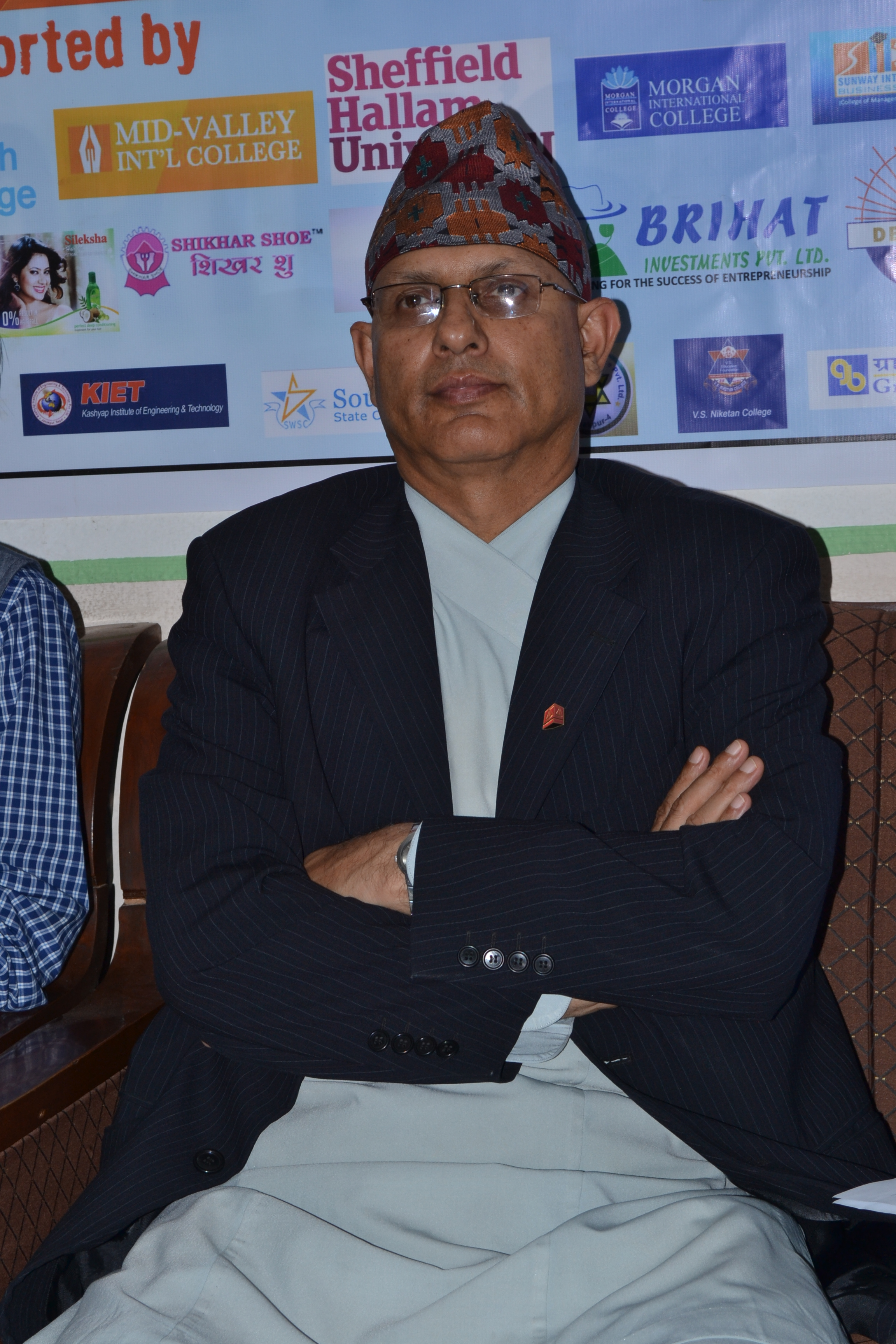 Education and Communication Minister Madhav Paudel at Repotersclub